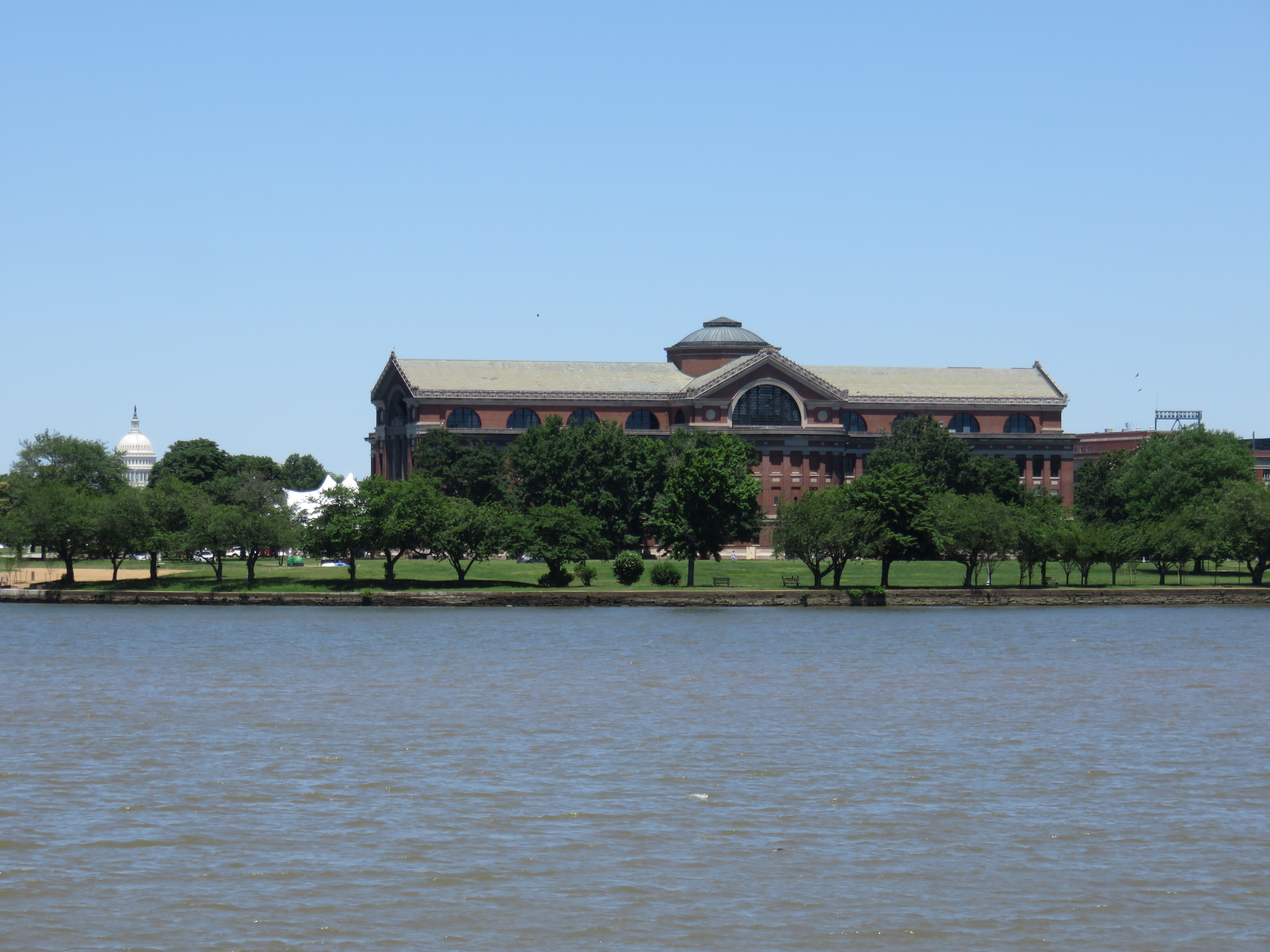 National War College Roosevelt Hall viewed from the Potomac water taxi in 2019